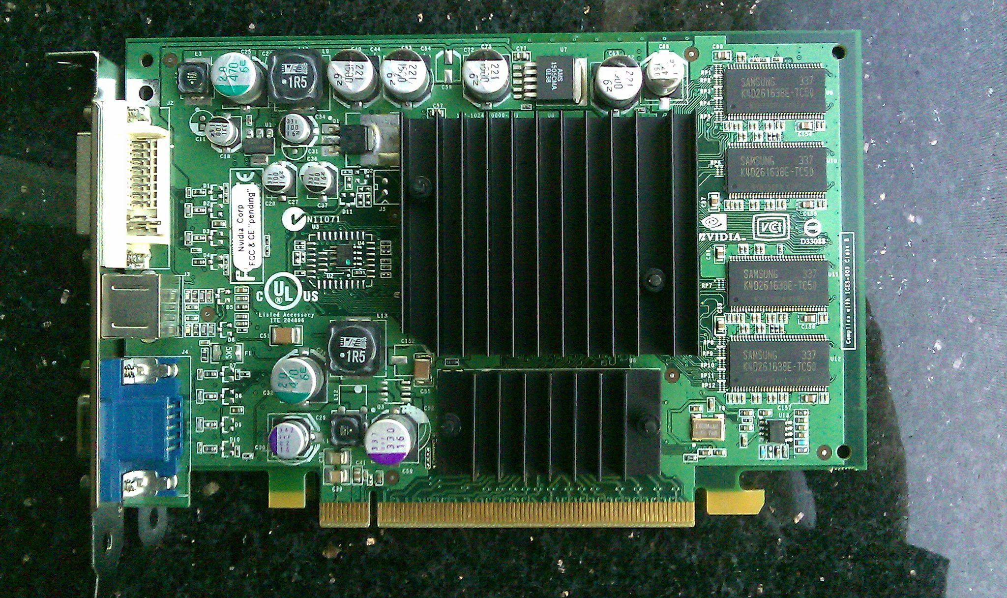 NVIDIA GeForce PCX 4300 Graphic card. The PCX4300 is based on a GeForce4 MX 4000 with its AGP-8x-interface bridged to PCIe